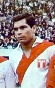 Peru national football team moments prior to a practice match against the Mexico national football team in 1968. Friendly match ahead of their participation in the 1970 FIFA World Cup, featuring players from the team that qualified them to the aforementioned tournament.